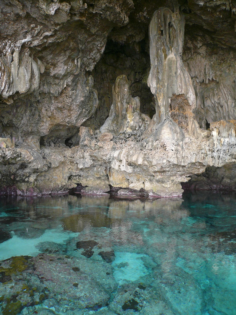 Avaiki Cave: Avaiki Cave is situated on West Coast of NIUE, 7km north of Alofi. The undersea tunnel connects Avaki Cave and sea.